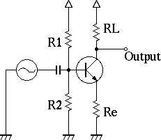 Current-feedback-bias circuit